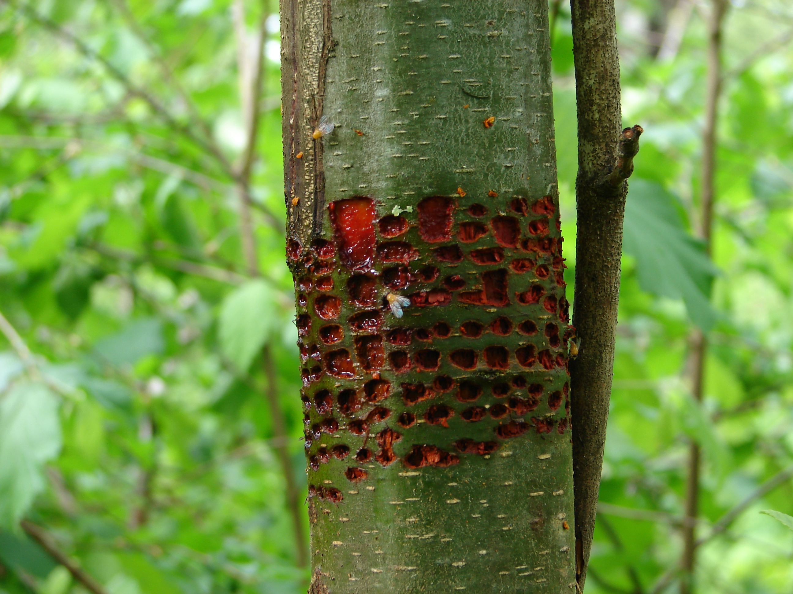 Marks of a Red-breasted Sapsucker